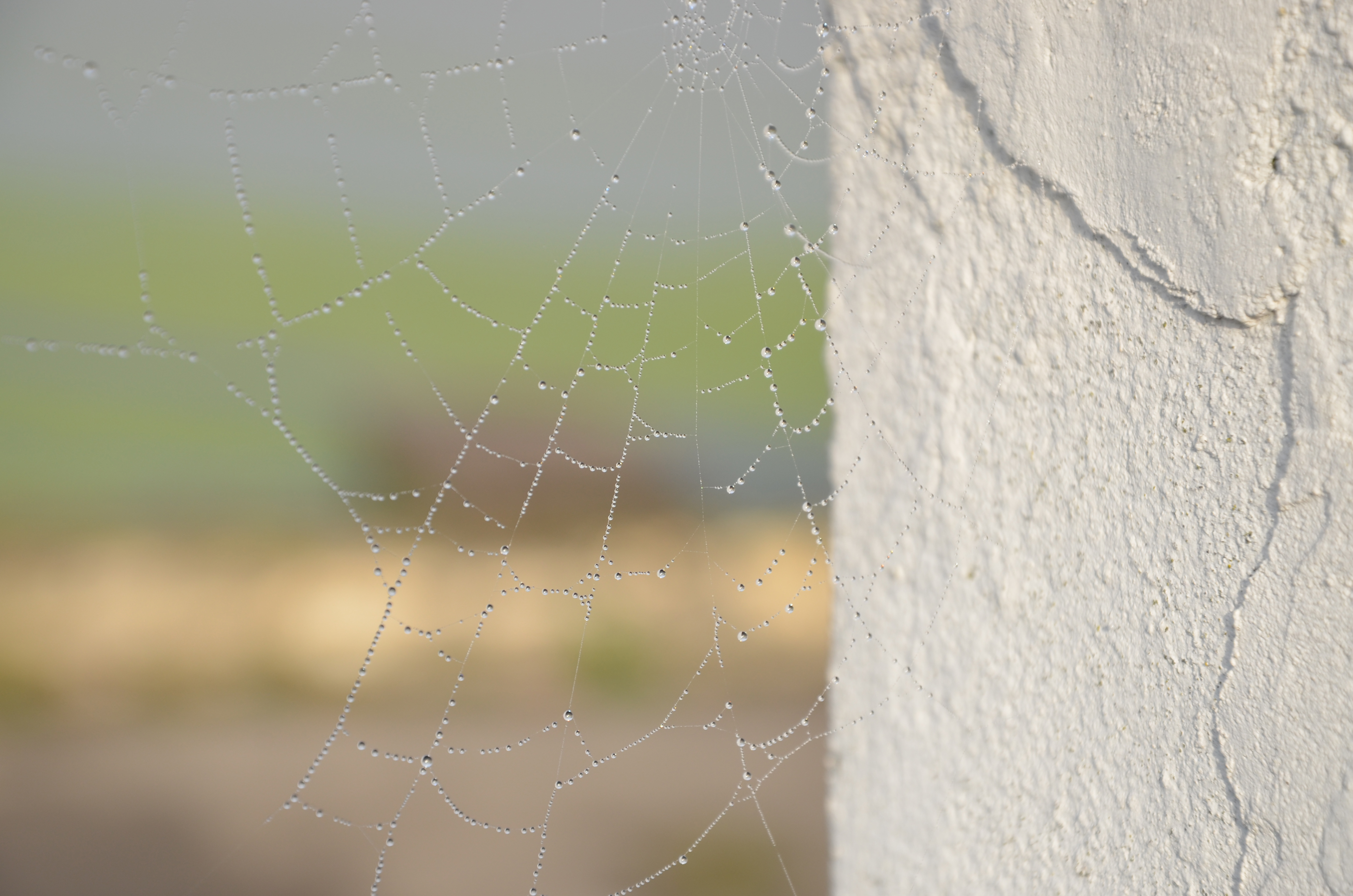 The dew settled on the spider’s web. Dew is a drop of moisture. They are deposited in different places in the morning or evening. Air mass cools at this time. Water vapor condenses near the earth's surface. Water vapor turns into water droplets. Dew occurs faster at low temperature. It can not exist at negative temperatures. In this case the condensed steam will be frost. Not strong winds and clear skies contribute to the formation of dew. Excess steam released from the layers of air. They vary a little due to the power of the wind. Dew occurs mostly at night, because the planet's surface cools rapidly through the sunset and the lack of thermal radiation. Photography can be used for illustration of dew in the thematic articles.